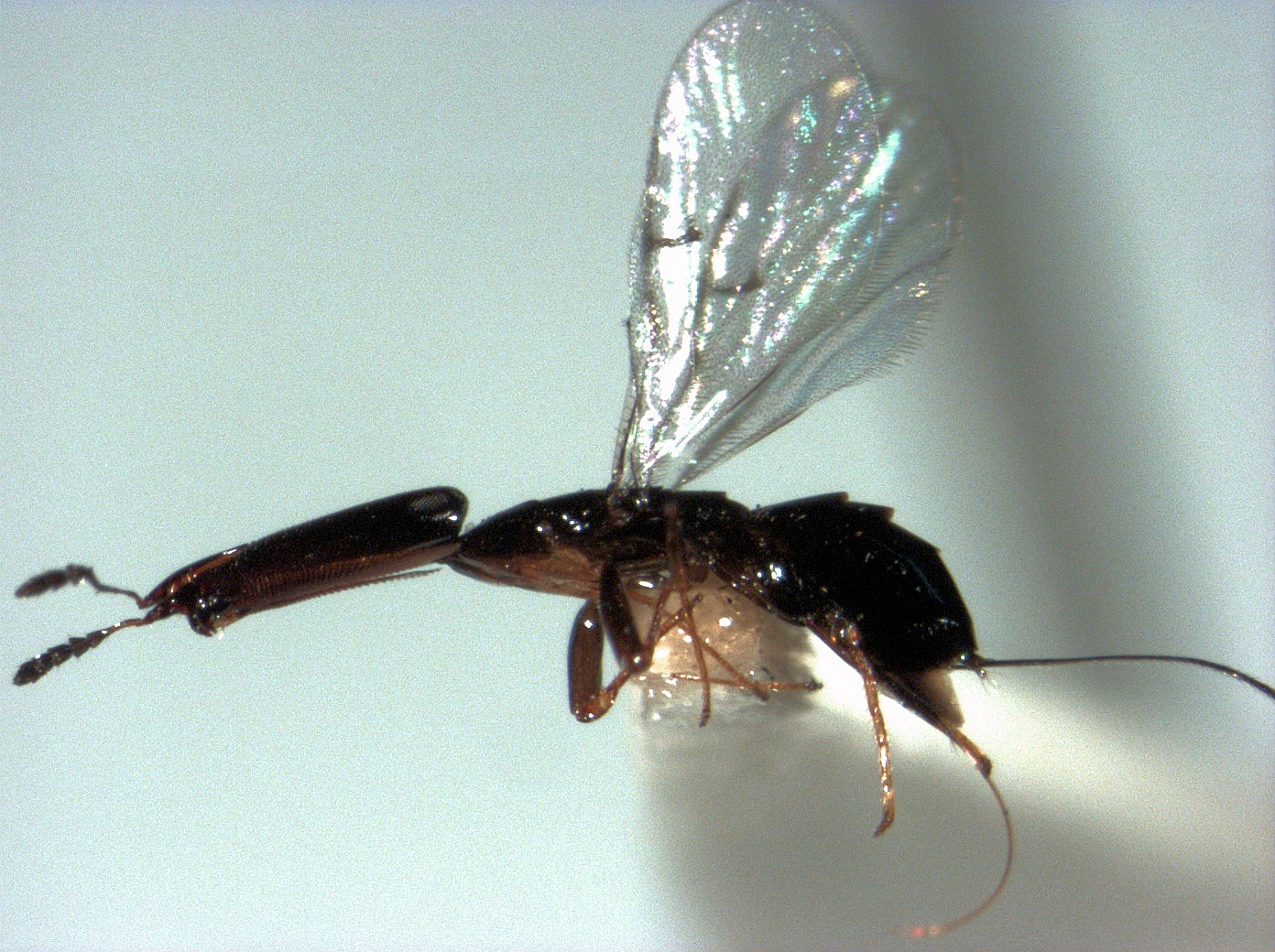 adult female Pleistodontes froggatti